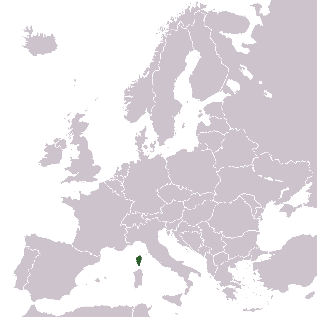 Location map for Corsica, based on Europe location F.png, with Montenegro added.